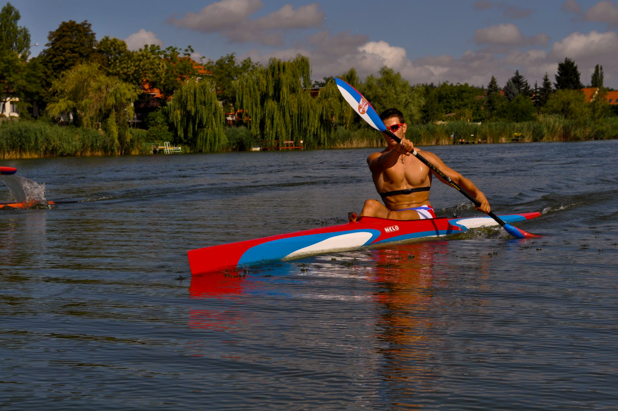 Picture of Aleksandar Aleksic